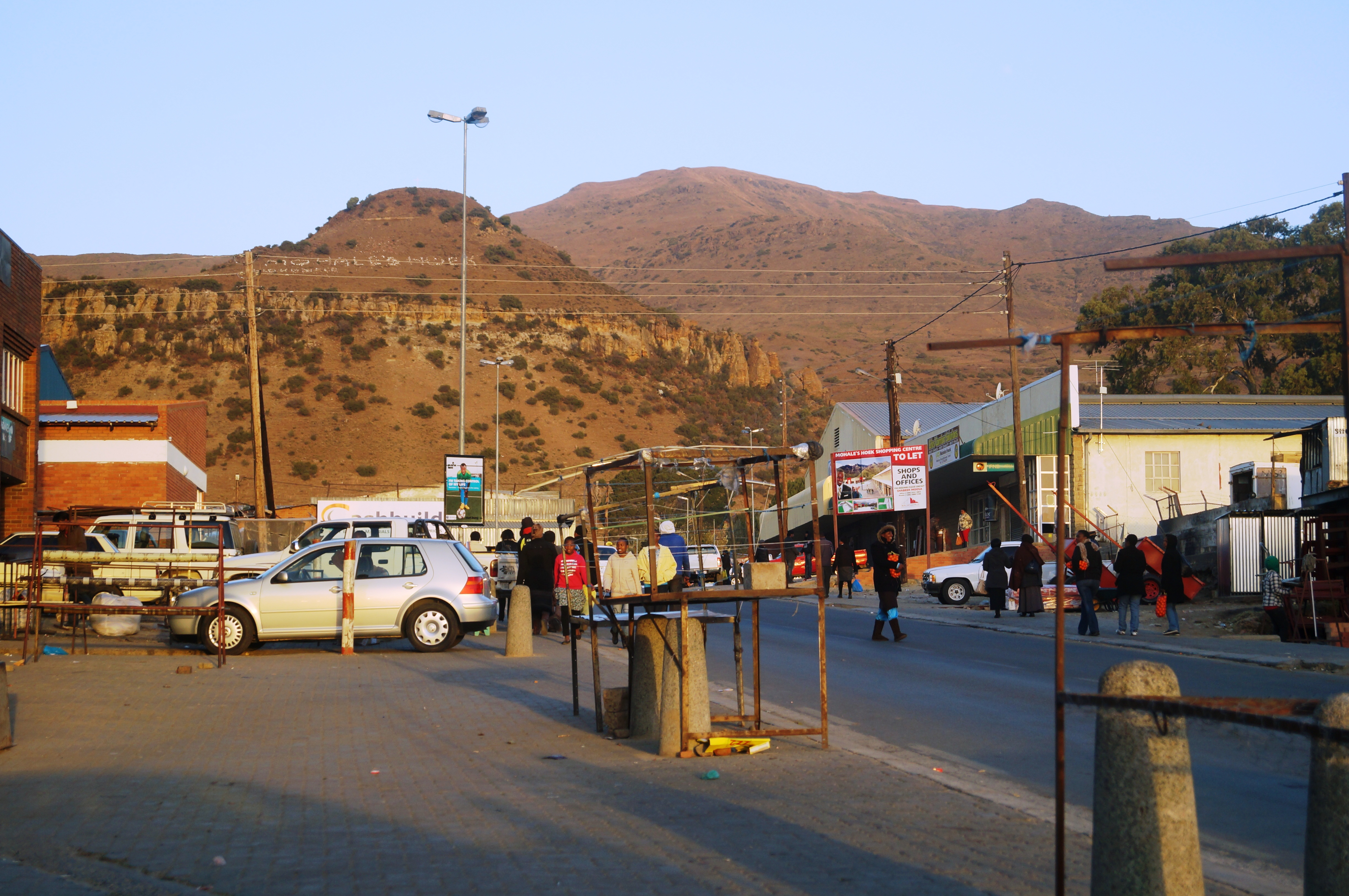 Mohales Hoek, Lesotho